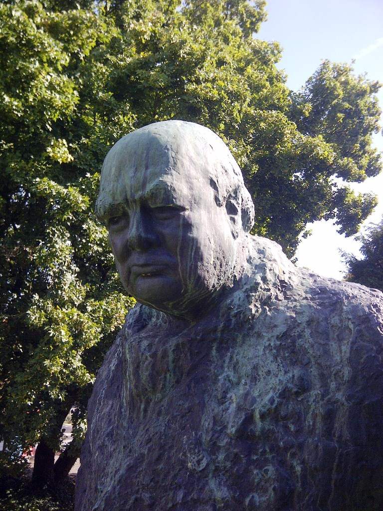 Statue of Winston-Churchill in Luxembourg-City, created by Oscar Nemon